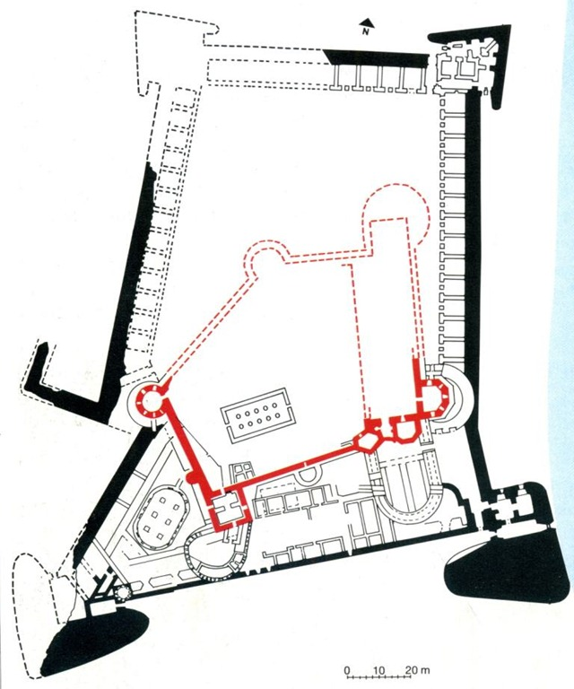 A floorplan of the Portuguese fortress Nossa Senhora da Conceição of Hormuz, during the different phases of its construction and enlargement. Made by Wolfram Kleiss in 1978. In red: early fort built in 1515; in black, the improvements made after the 1550s.